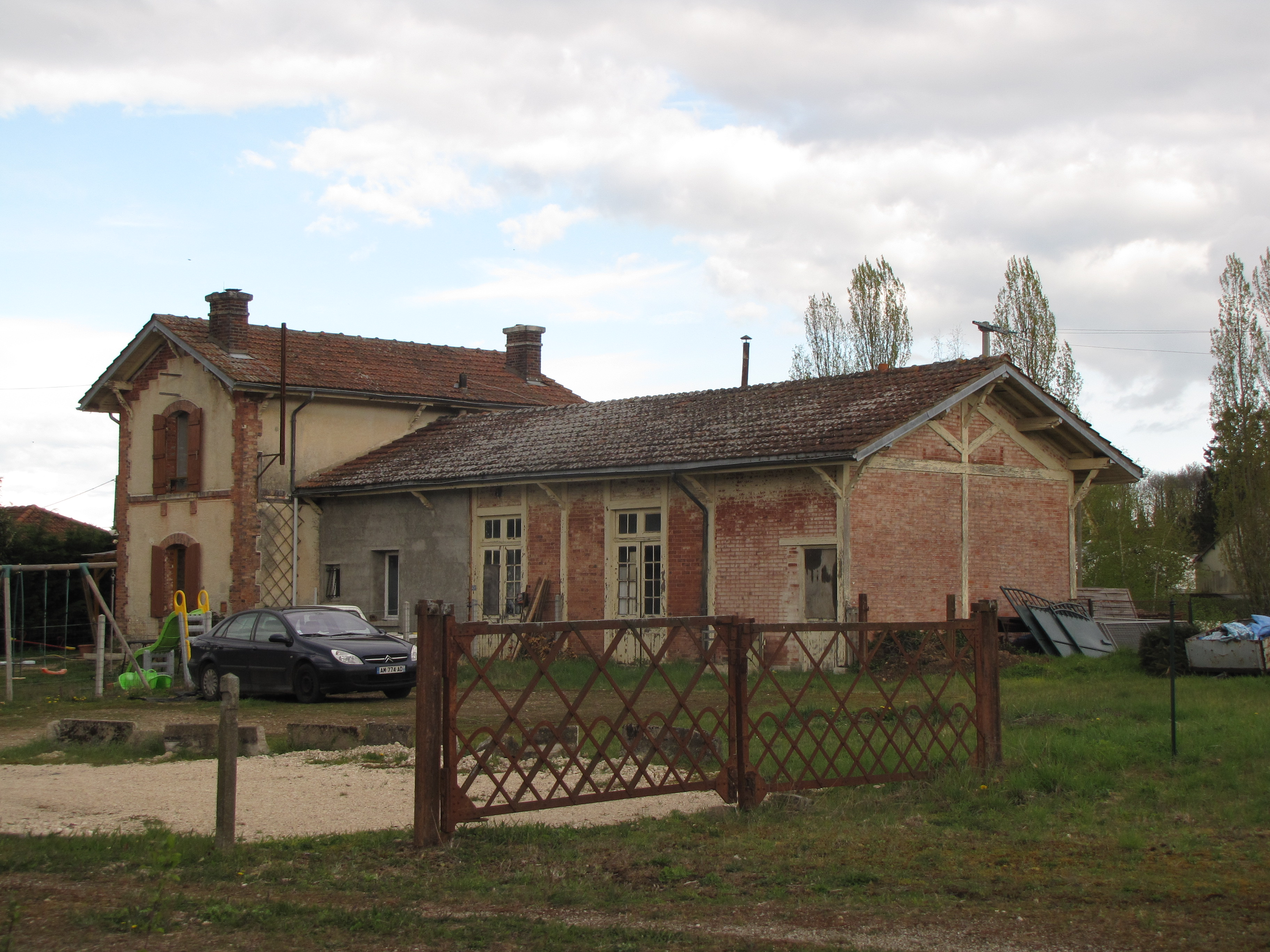 Disaffected train station - now a private house.